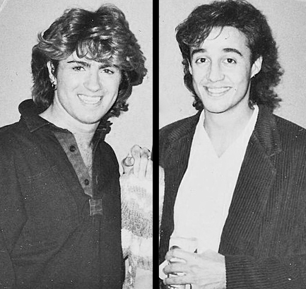 From left to right: George Michael (Wham!), Louise Palanker and Andrew Ridgeley (Wham!).